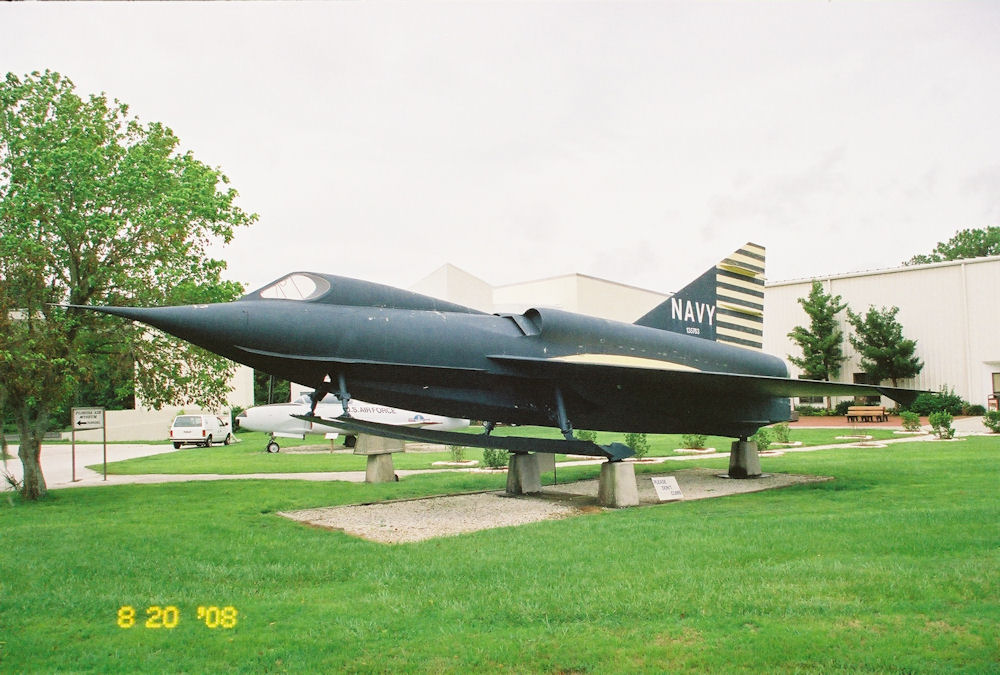 Convair_YF2Y-1_Sea_Dart_135765_FrontLside_FLAirMuse_20Aug08